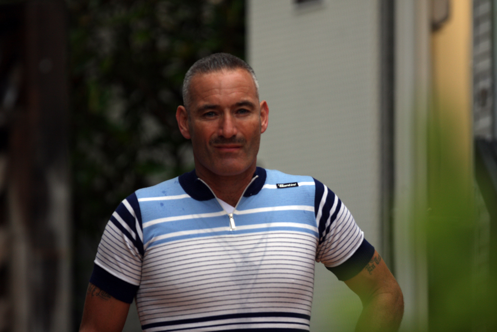 Anthony Field at the Any Questions for Ben? premiere in Sydney, Australia